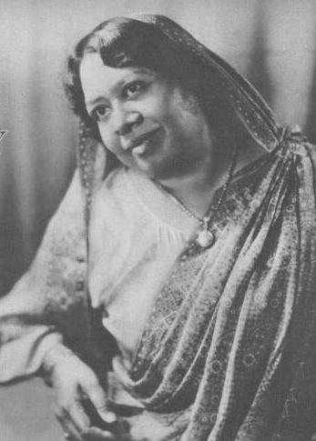 A middle-aged Indian woman wearing a printed sari, with the tail draped over her head.